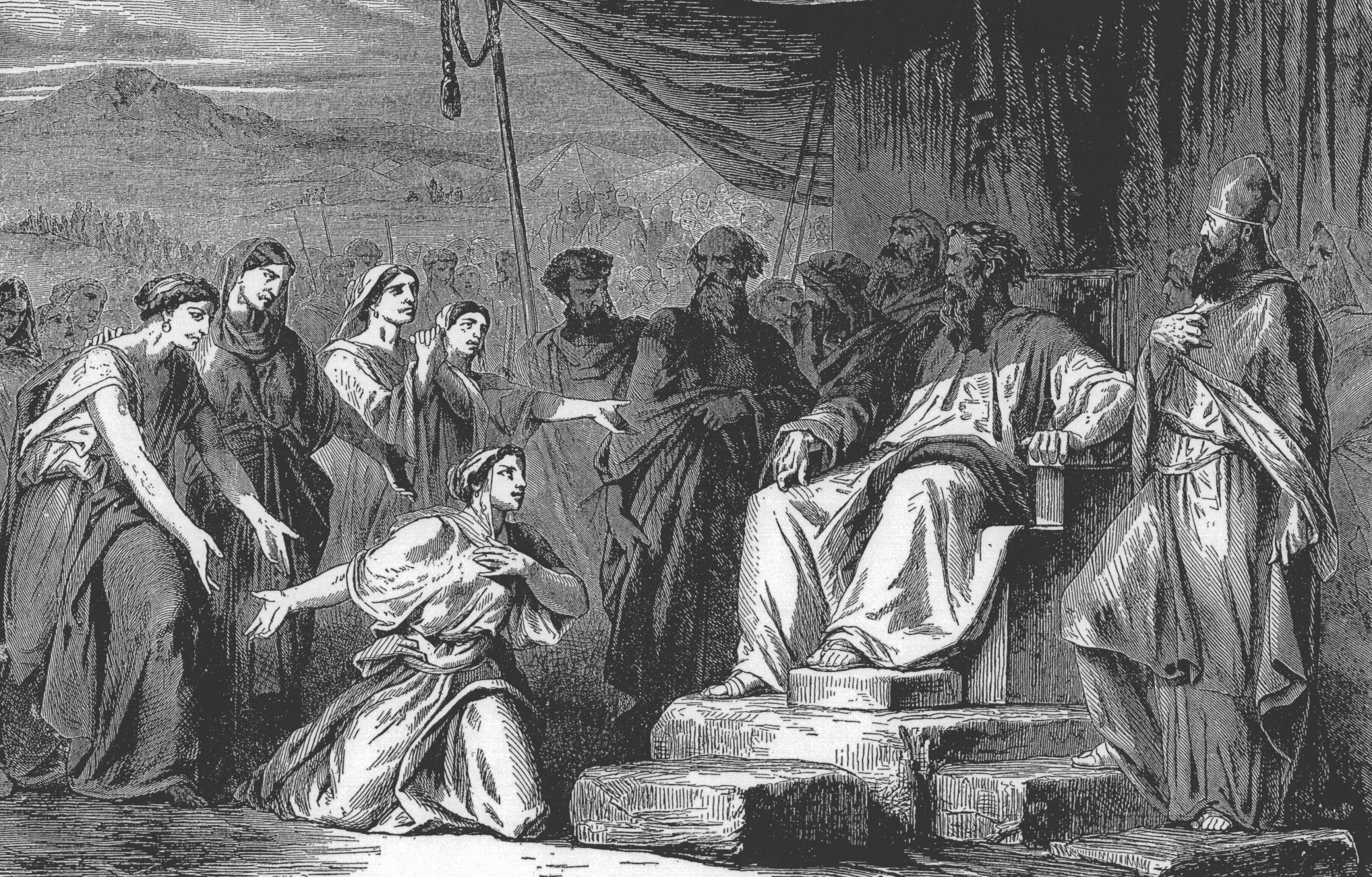 The Daughters of Zelophehad, as in Numbers 27:1-11, illustration from The Bible and Its Story Taught by One Thousand Picture Lessons. Edited by Charles F. Horne and Julius A. Bewer. 1908.